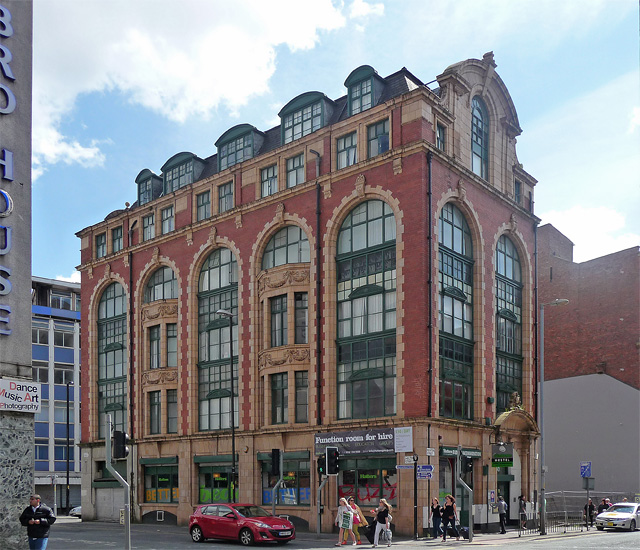 A former warehouse by C. Clegg & Son, 1907. Grade II listed. Believed to have been built for a hat manufacturer, now a hostel.